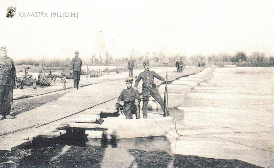 Pontoon bridge erected by local Greek Macedonian population in Halastra which give possibility to VII infantry division first entered to the liberated by the Greek army in October 1912 capital of Macedonia, Thessaloniki.